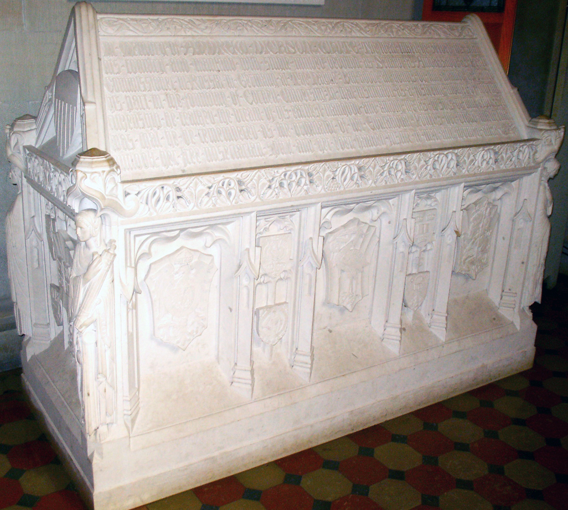 Cropped, color-corrected version of file :Image:AD White Sarcophagus.JPG